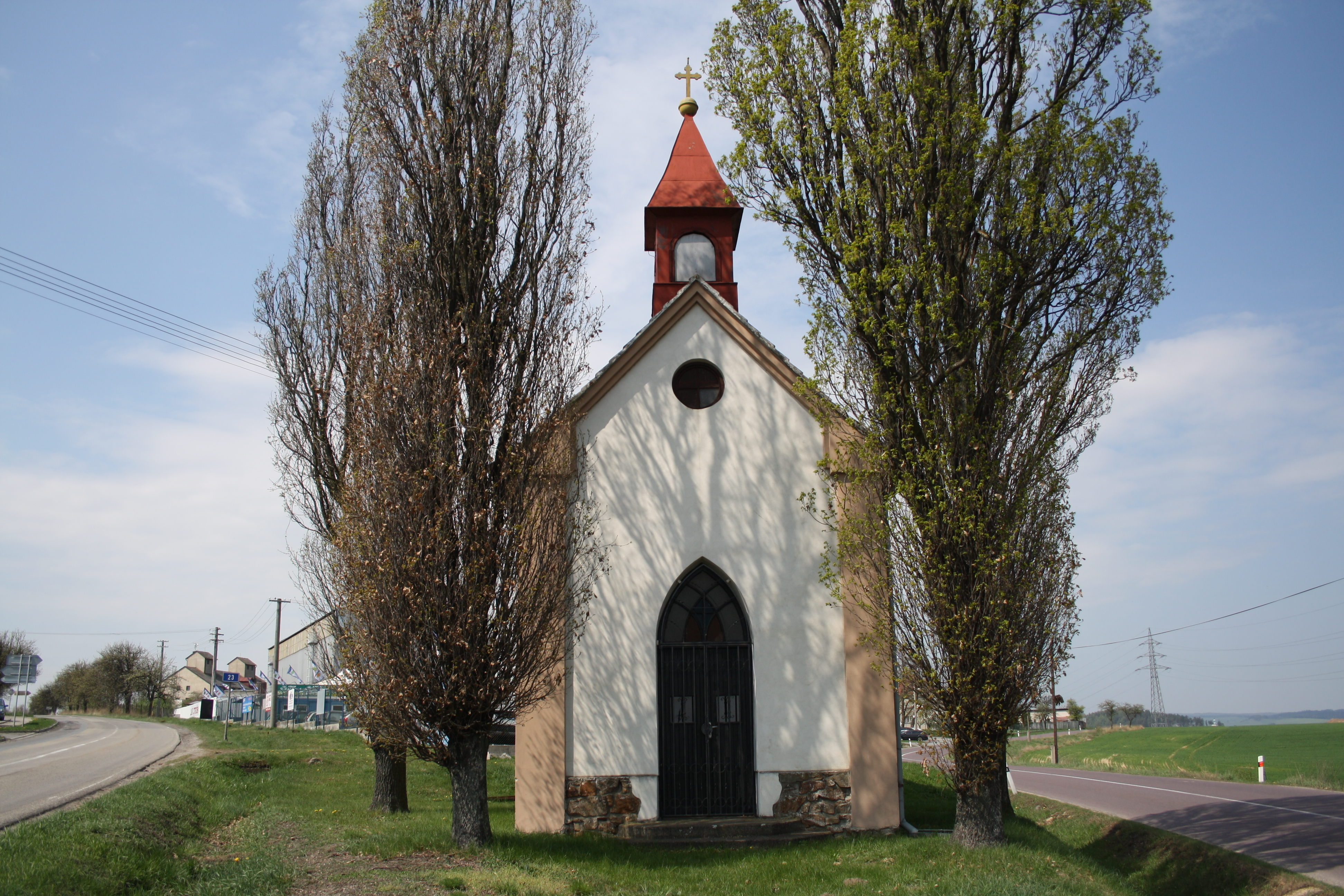 Chapel of the Holy Family in Červená Hospoda, Czech Republic.